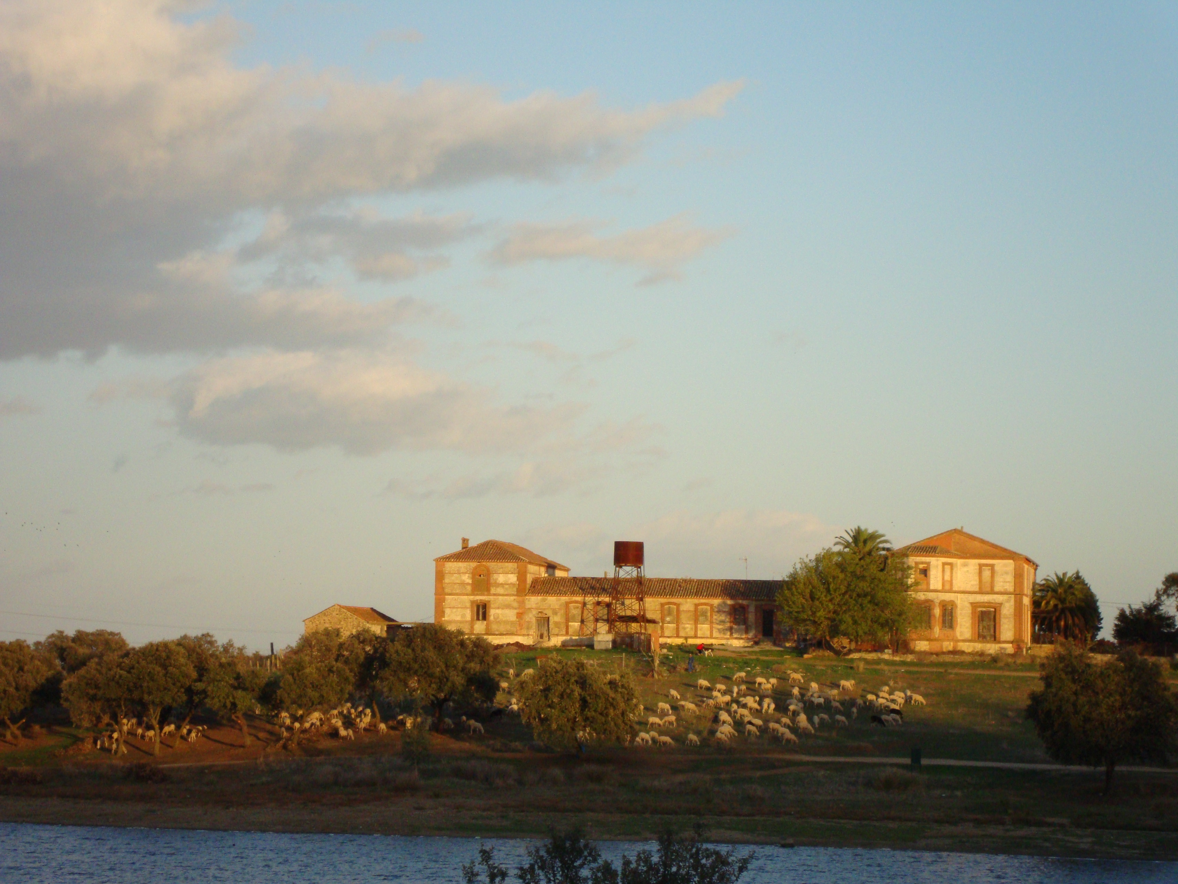 La Portiña reservoir, near Talavera de la Reina (Spain)